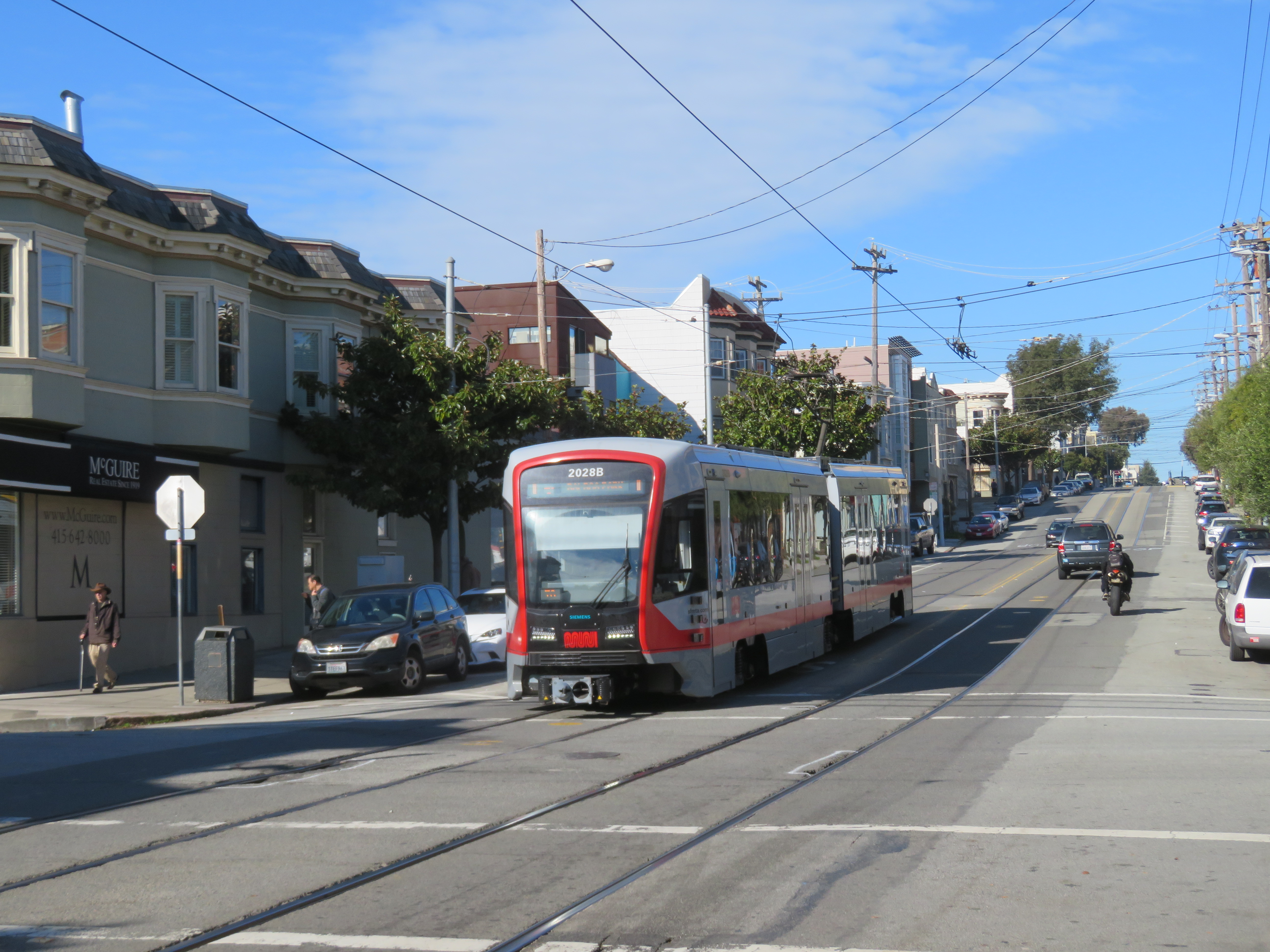 An outbound train at Church and Clipper station in January 2019